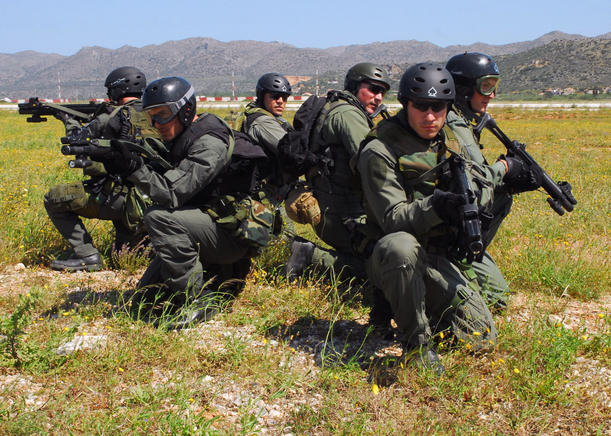 090430-N-3970R-003 SOUDA BAY, Greece (April 30, 2009) Greek sailors form up after completing a fast-roping exercise from a Greek SH-60 Seahawk helicopter during exercise Phoenix Express. Phoenix Express is part of the overall U.S. Africa Command and U.S. Naval Forces Europe, U.S. Naval Forces Africa, U.S. 6th Fleet Theatre Security Cooperation strategy to enhance regional stability in the region through increased interoperability and cooperation among regional allies from the United States, Africa, and Europe. (U.S. Navy photo by Mass Communication Specialist 1st Class Jenniffer Rivera/Released)